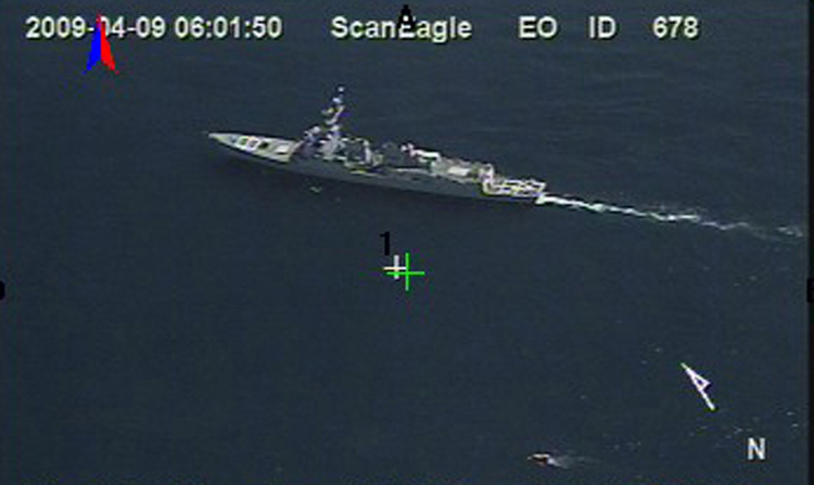 090409-N-0000X-136 INDIAN OCEAN (April 9, 2009) In a still frame from video taken by the Scan Eagle unmanned aerial vehicle, the guided-missile destroyer USS Bainbridge (DDG 96) is underway near a 28-foot lifeboat, lower right, from the U.S.-flagged container ship Maersk Alabama in the Indian Ocean. (U.S. Navy Photo)